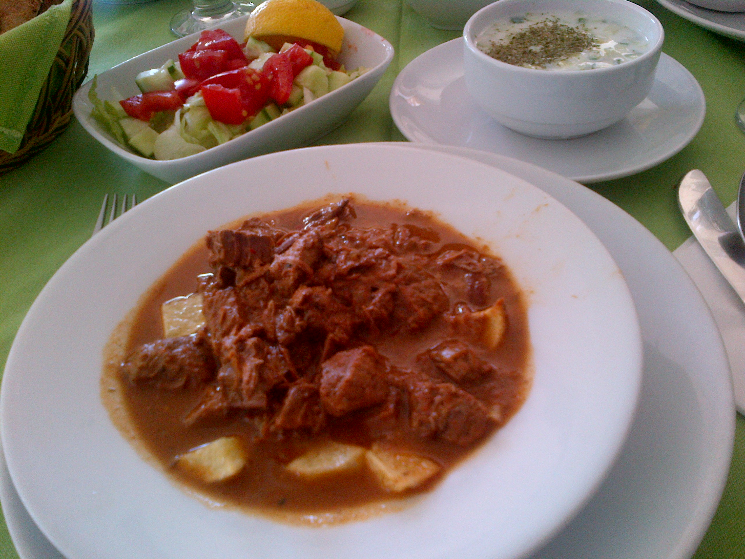 Tas kebap and cacık